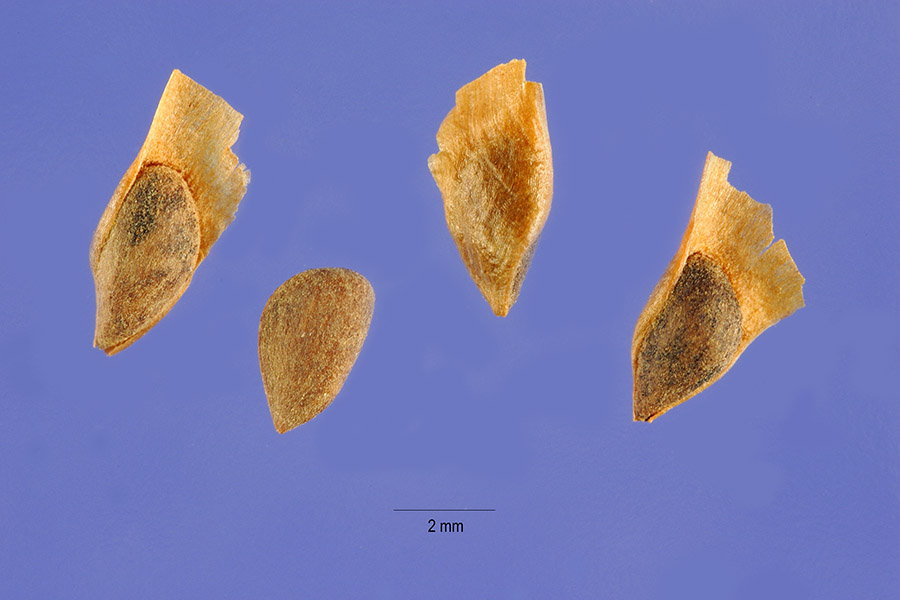 Seeds of Black Spruce (Picea mariana)